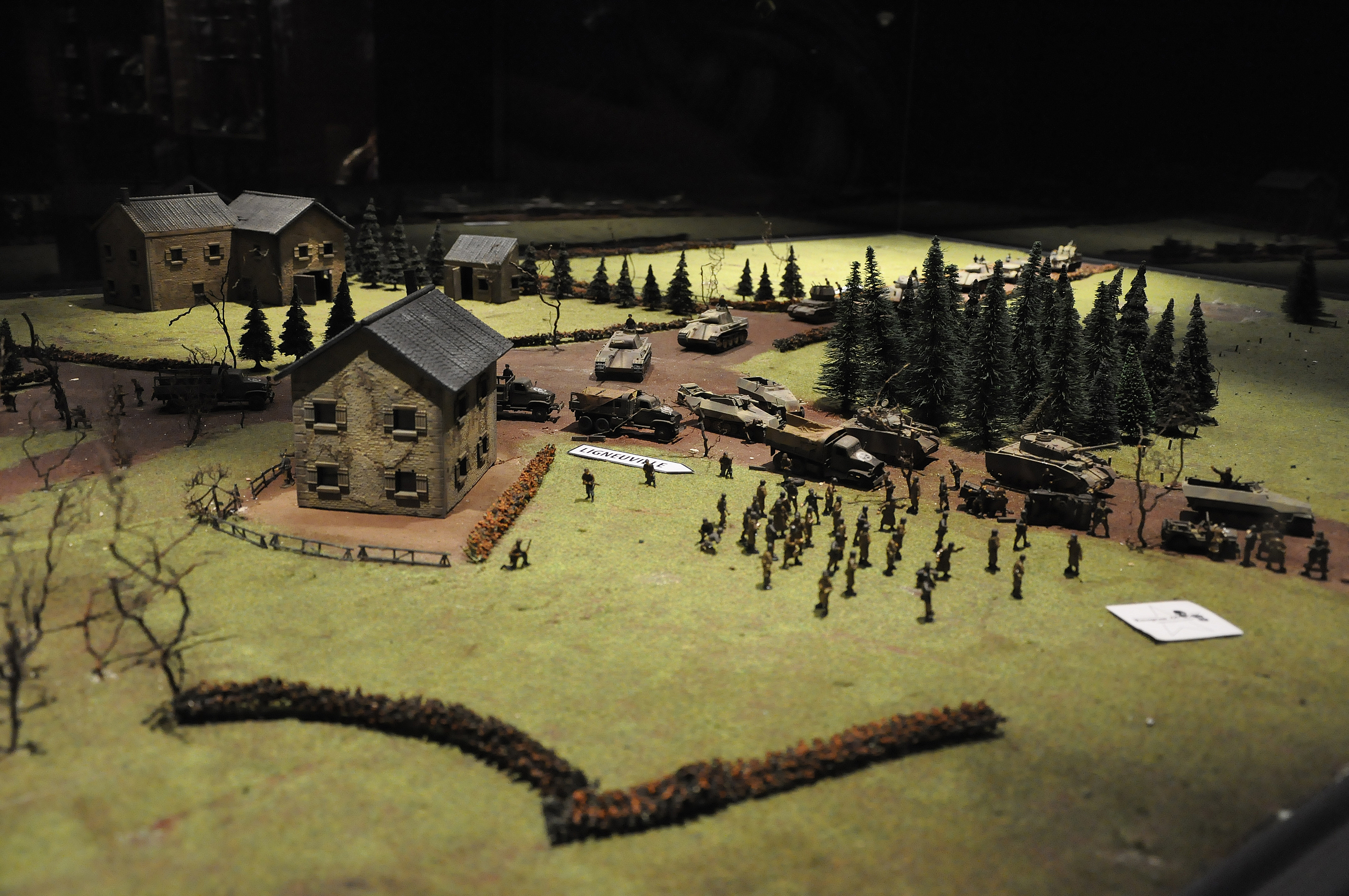 Maquette of the massacre of American soldiers at Baugnez, Malmedy, Belgium, dec 17 1944 at the Baugnez 44 Historical Center